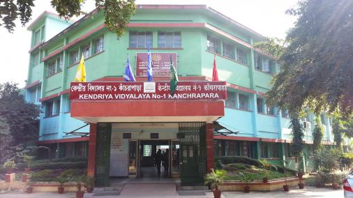 Front view of Kendriya Vidyalaya No,1 Kanchrapara School